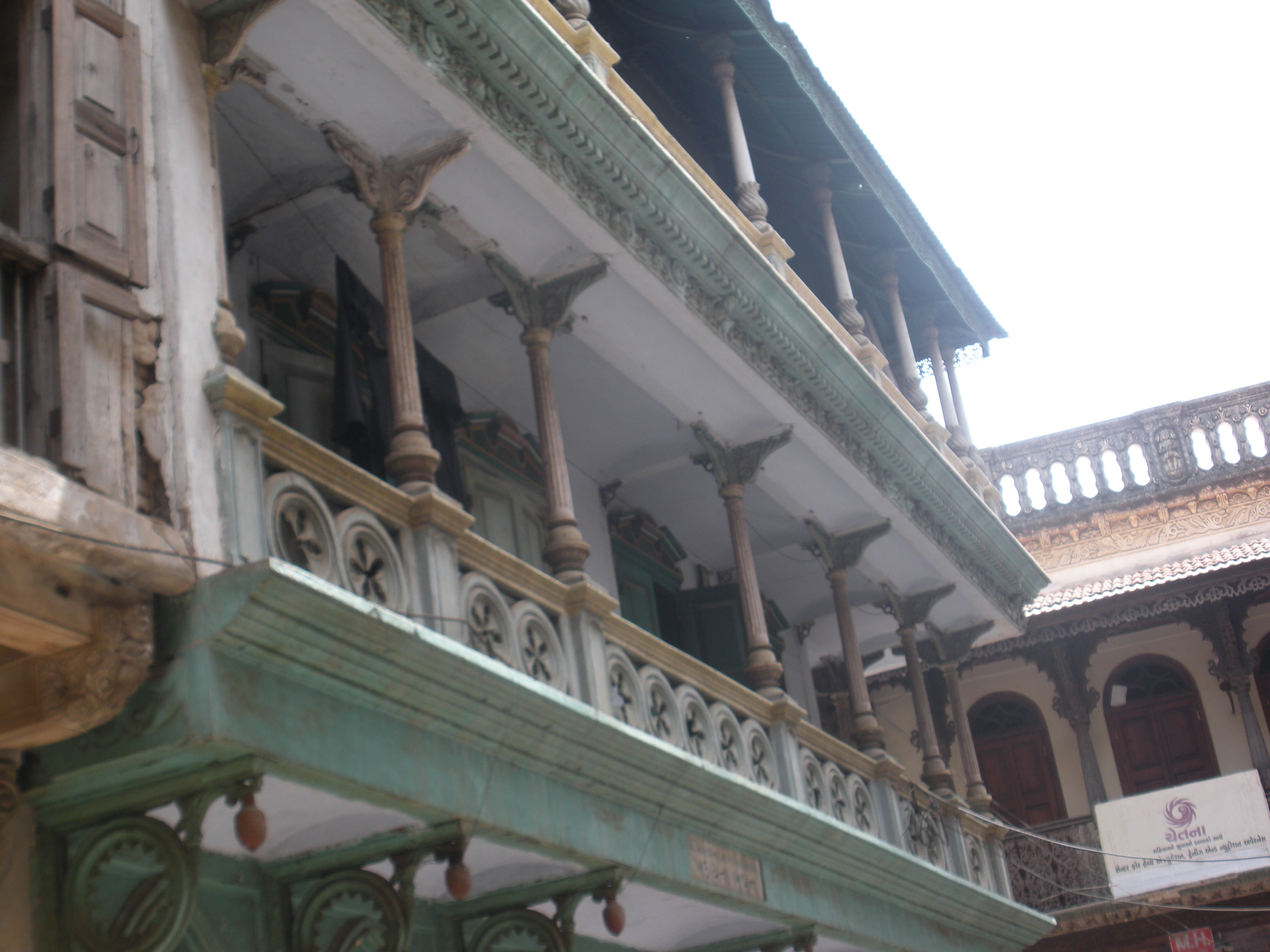 One of the heritage homes in Khadia area of Ahmedabad.